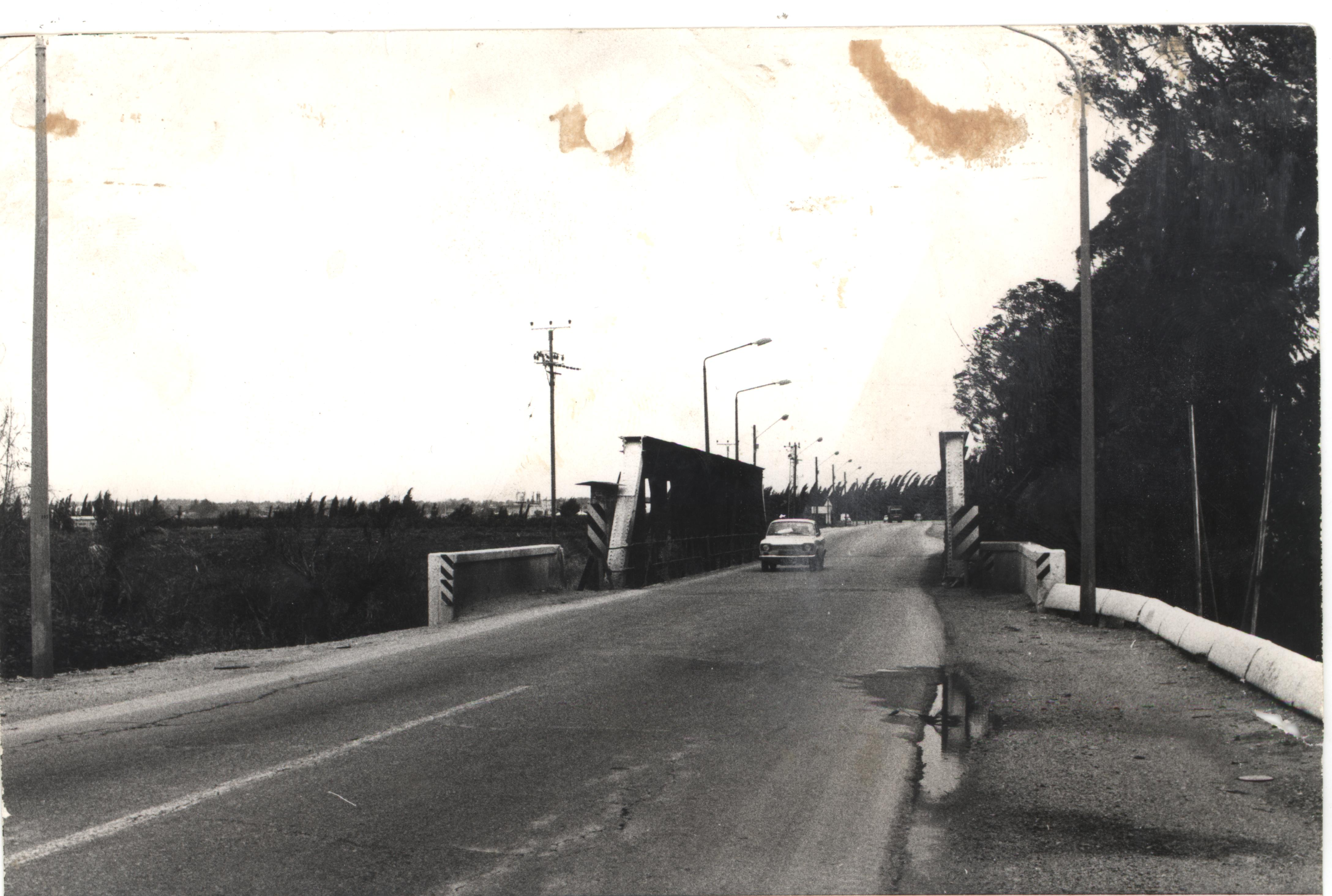 The bridge over the Yarkon River which flows between Hod Hasharon to Petah Tikva